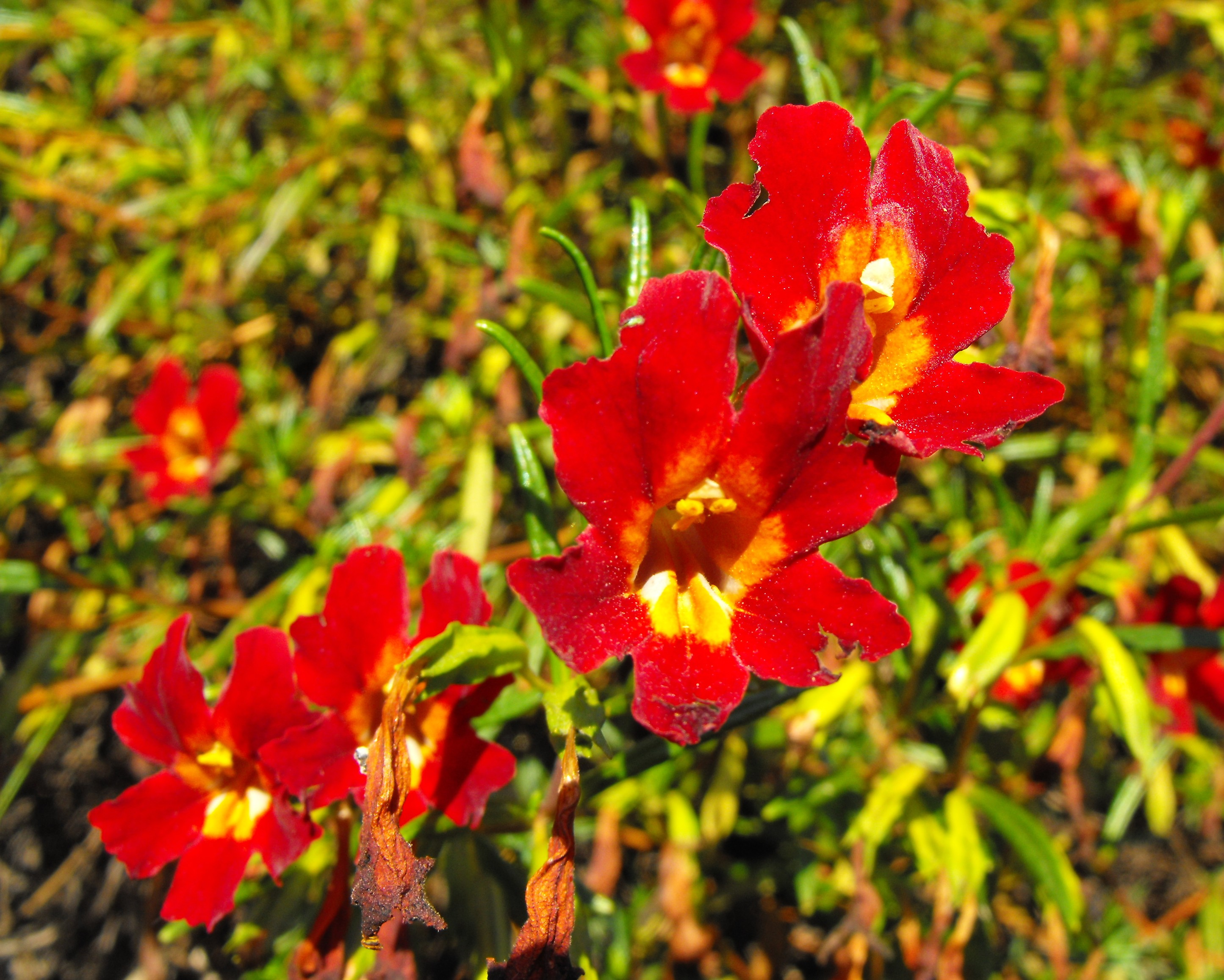 Mimulus aurantiacus — Bush Monkeyflower. In Mission Trails Regional Park, San Diego, California. This is one of the darker red ones in the area; there were paler red, and some orange specimens too.